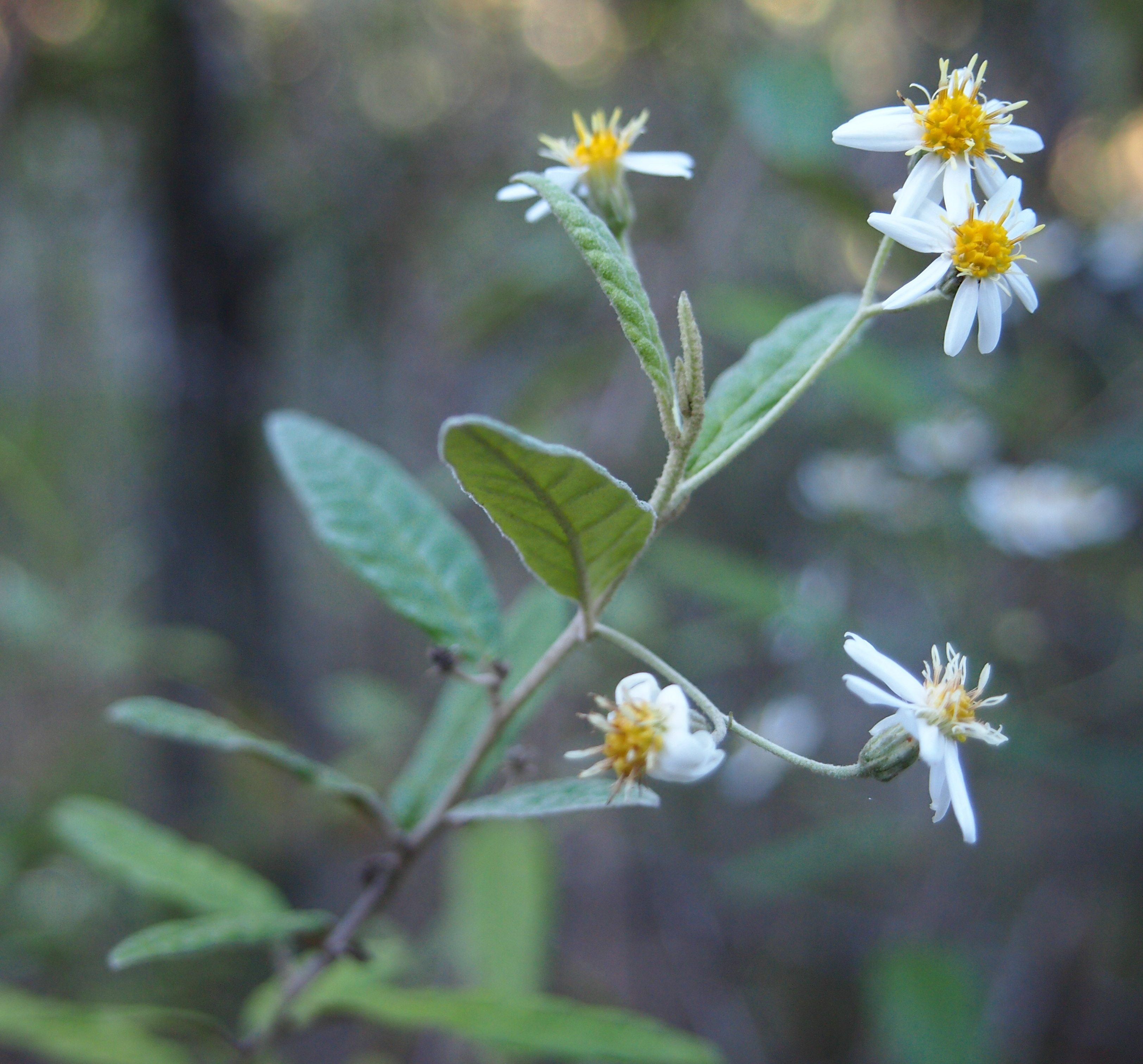 Olearia canescens flowers